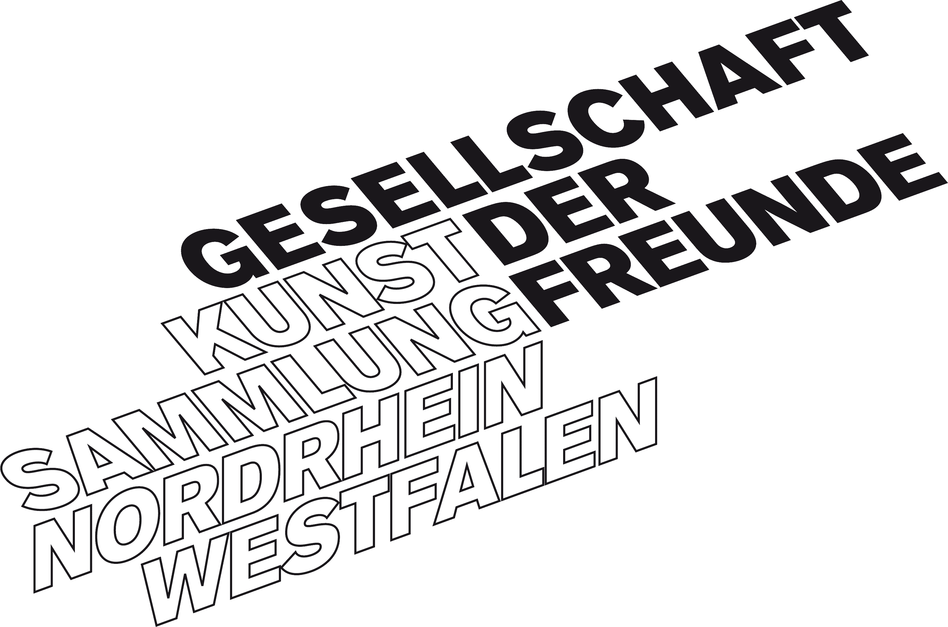 Logo GFK